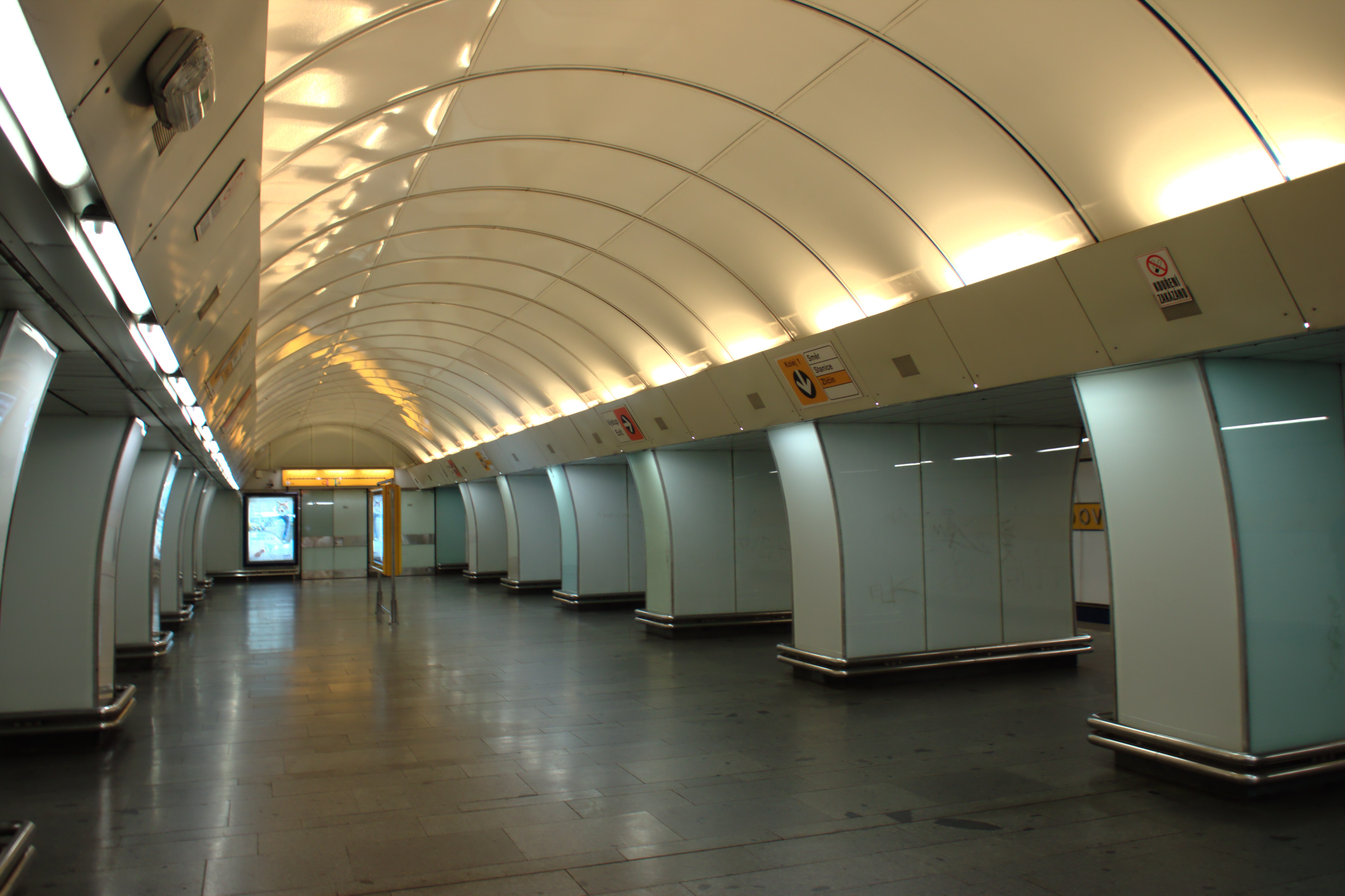 Invalidovna metro station, Prague